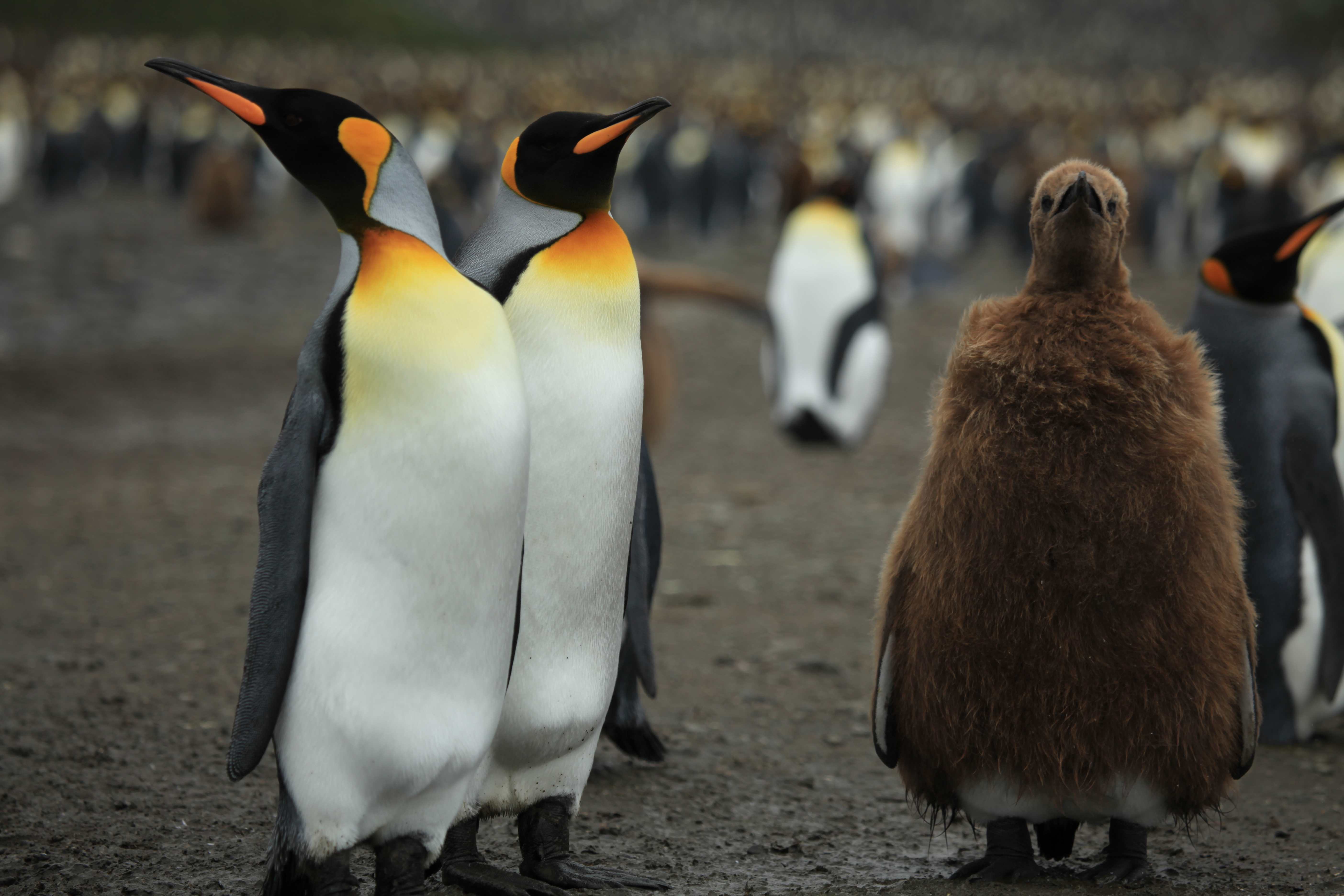 At Salisbury Plain, South Georgia.